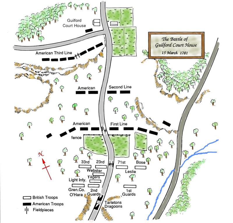 Guilford Court House Battleground 1781 During American War of Independence